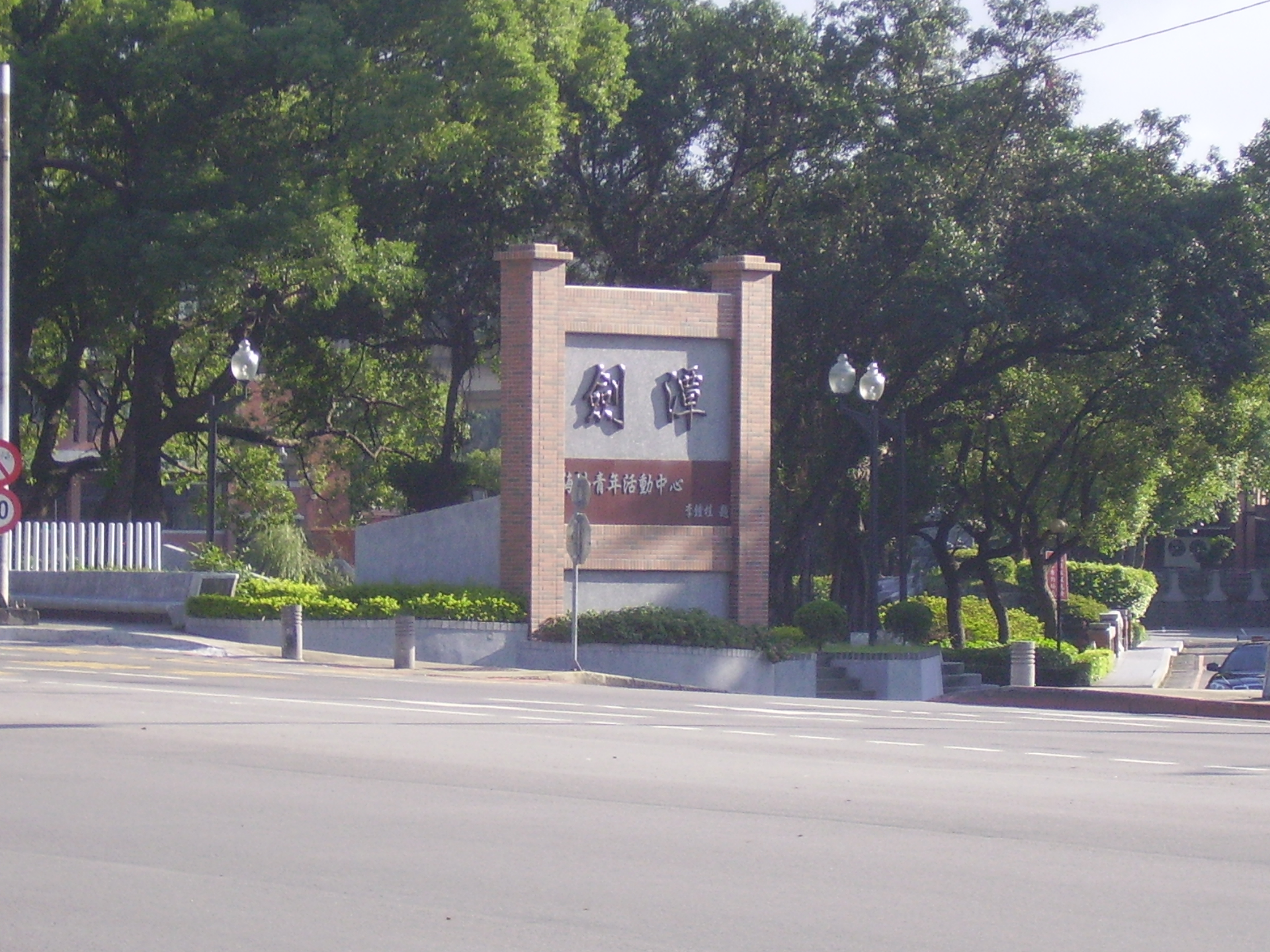 CTOYAC（Taipei）